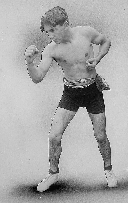 Adolph Wolgast circa 1912-1913 [between 1910 and 1915] 1 negative : glass ; 5 x 7 in. or smaller. Notes: Title from unverified data provided by the Bain News Service on the negatives or caption cards, with additional information from negative LC-B2-2462-13. Forms part of: George Grantham Bain Collection (Library of Congress). Format: Glass negatives. Repository: Library of Congress, Prints and Photographs Division, Washington, D.C. 20540 USA, General information about the Bain Collection is available at Persistent URL: Call Number: LC-B2- 2491-14